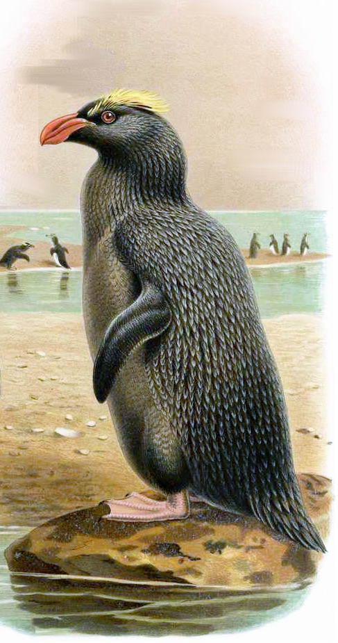 Erect-crested Penguin (Eudyptes sclateri).